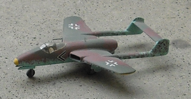 Model of the Focke-Wulf P.VII Flitzer